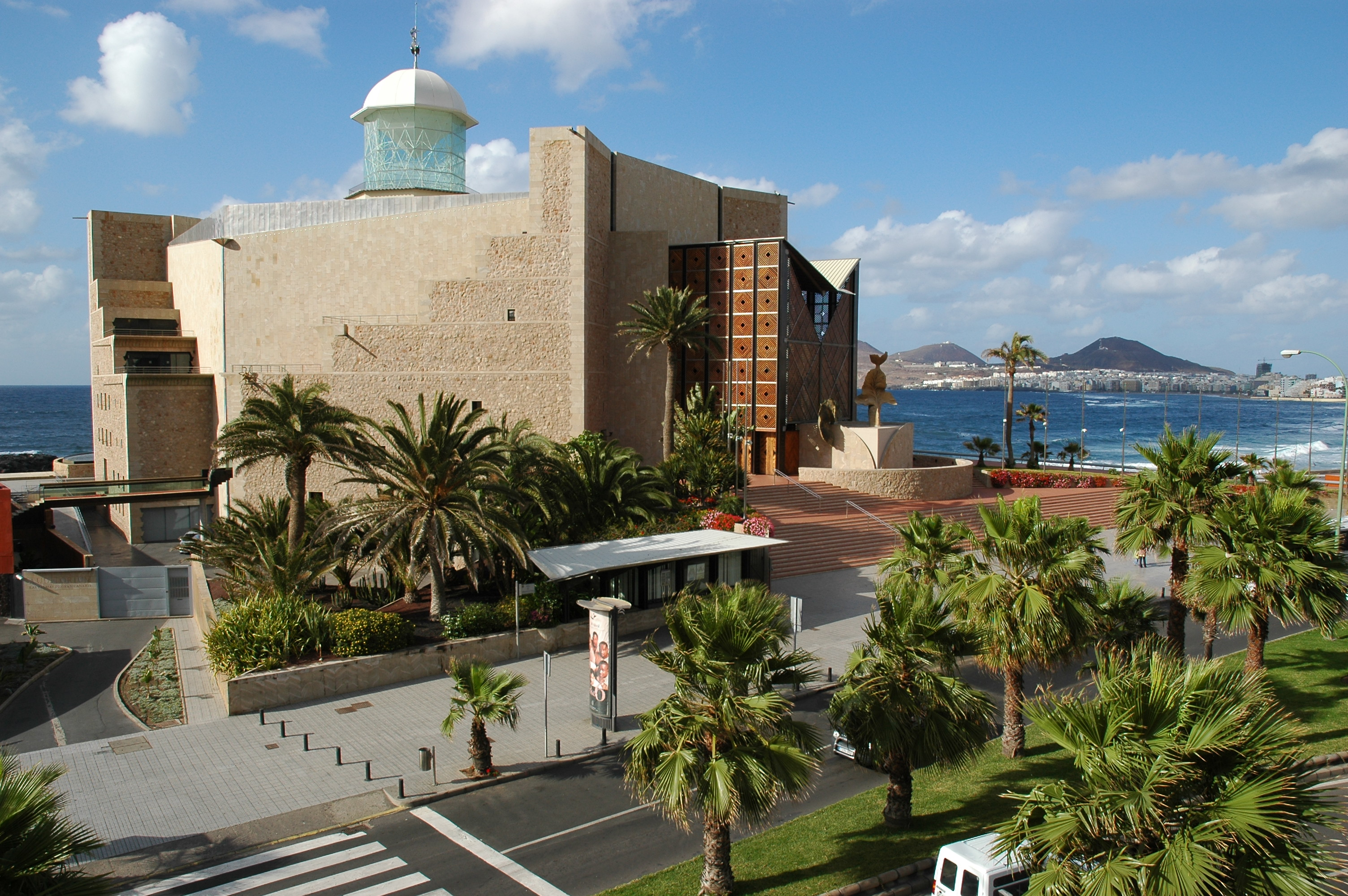 "Alfredo Kraus" Auditorium. Las Palmas de Gran Canaria. Canary Islands.